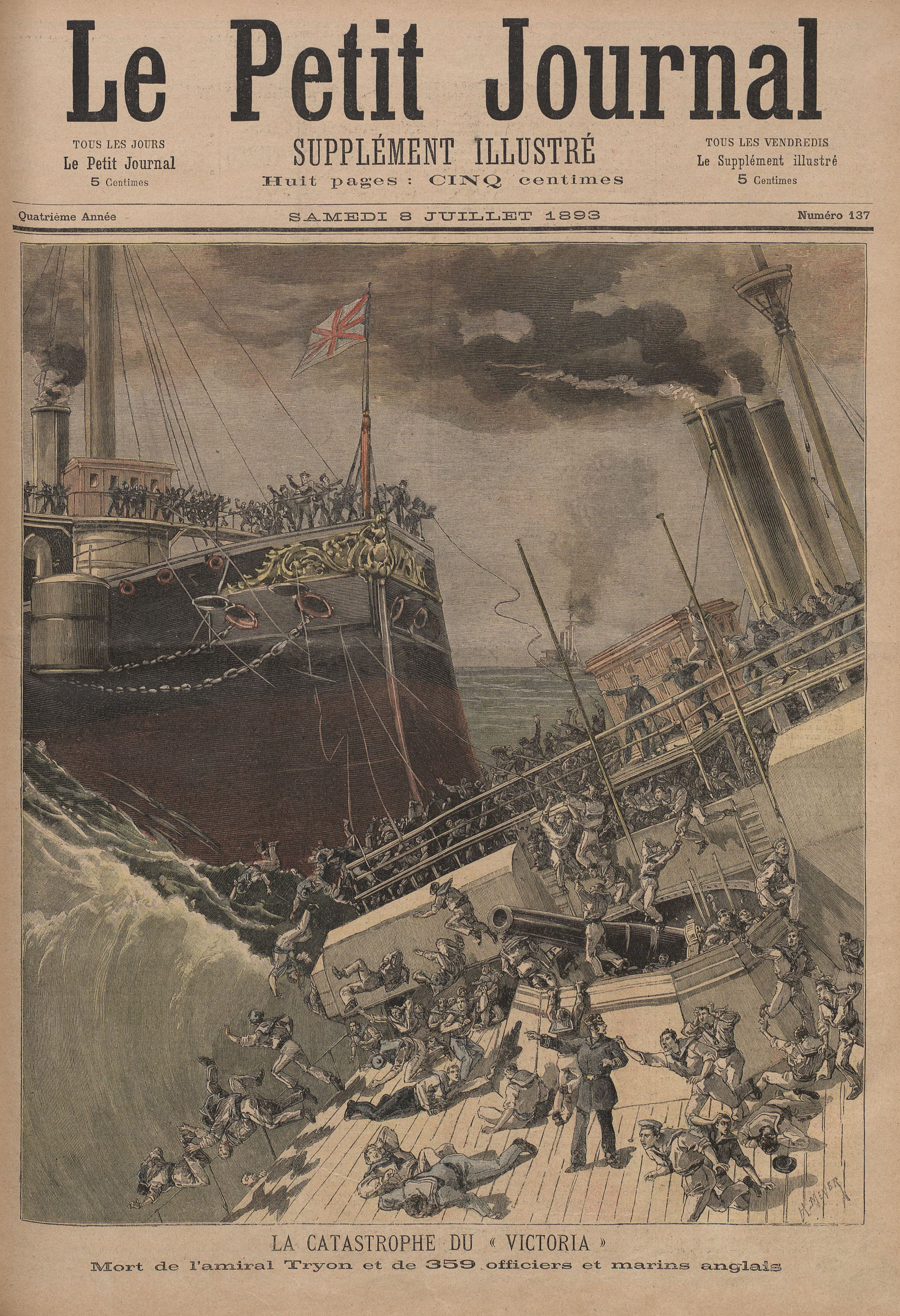 Artistic rendition of the collision of the HMS Victoria and HMS Camperdown.